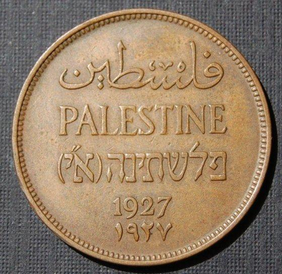 A mill, a coin used as currency during the British Mandate for Palestine from 1927 to 1948. One thousand mills were equivalent to one Palestine pound. Shows the word "Palestine" in Arabic, English, and Hebrew, the Hebrew version followed by the abbreviation for "Land of Israel" in parentheses.